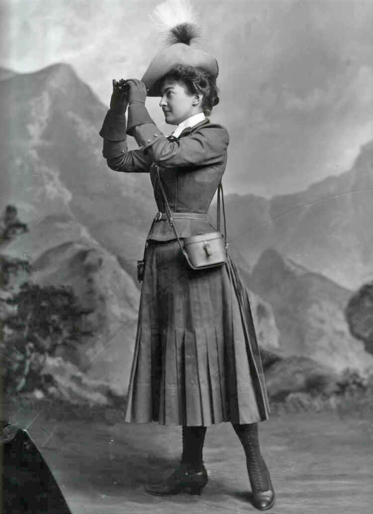 Miss Grace Palotta as Daisy Dapple, a lady journalist in "The Messenger Boy", a musical play, by James T. Tanner and Alfred Murray, the Gaiety Theatre, 3 February 1900.